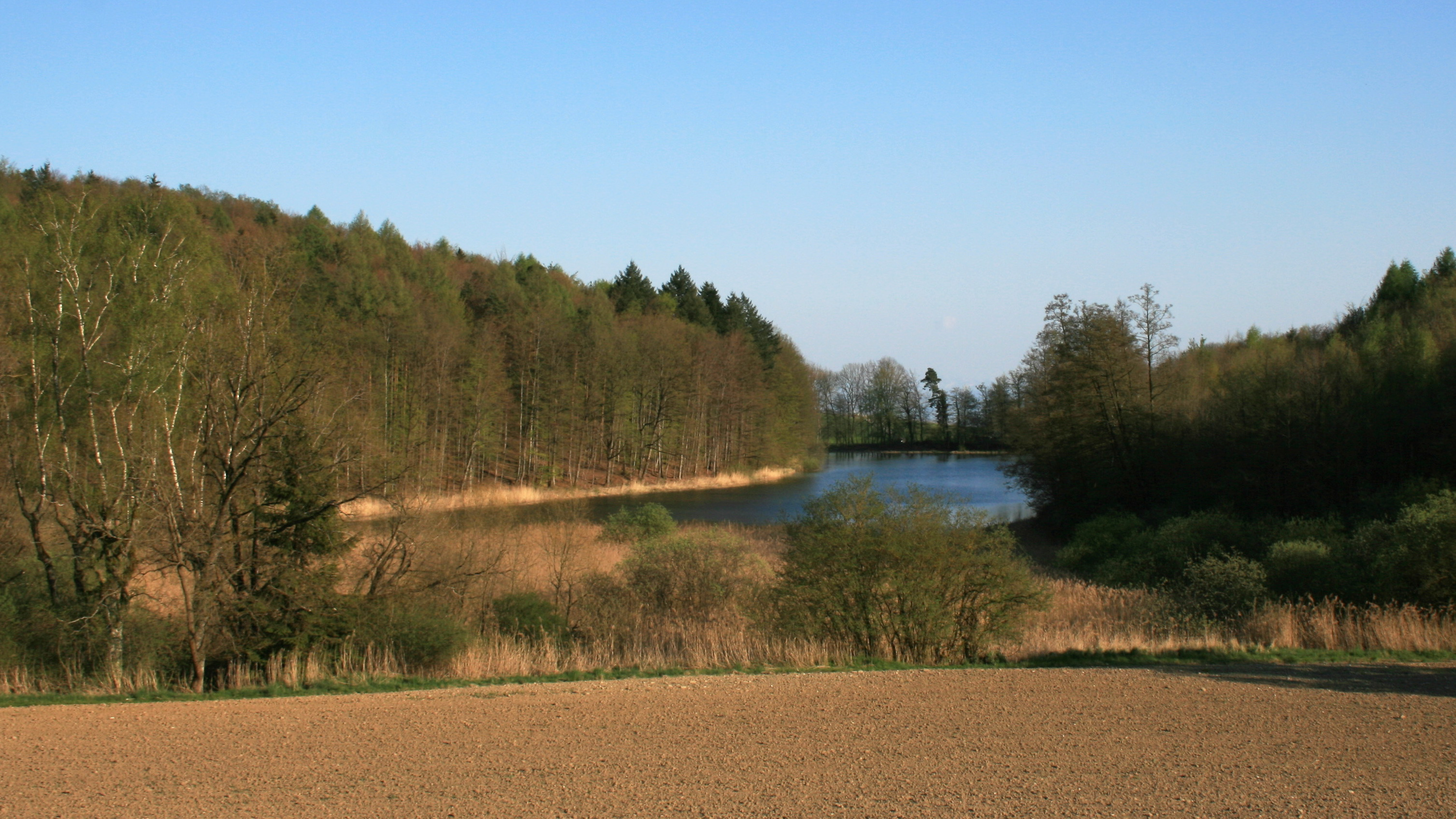 Neuweiher